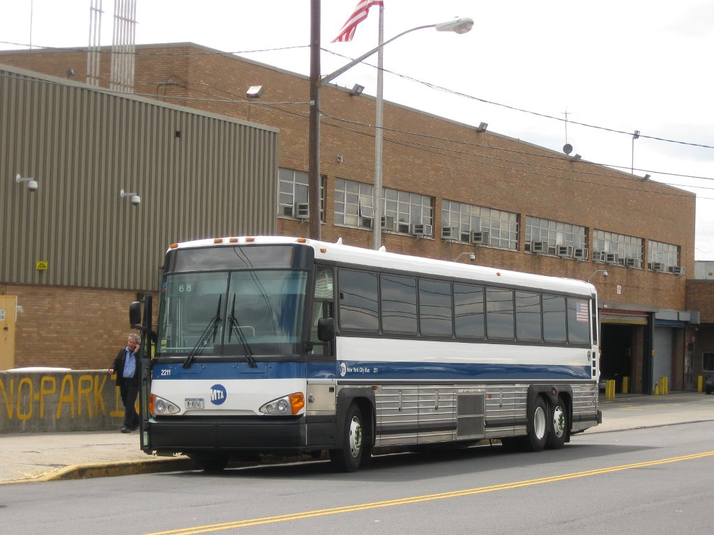 MTA New York City Bus MCI D4500CT #2211 lays over outside the Yukon Depot in the New Springville section of Staten Island.